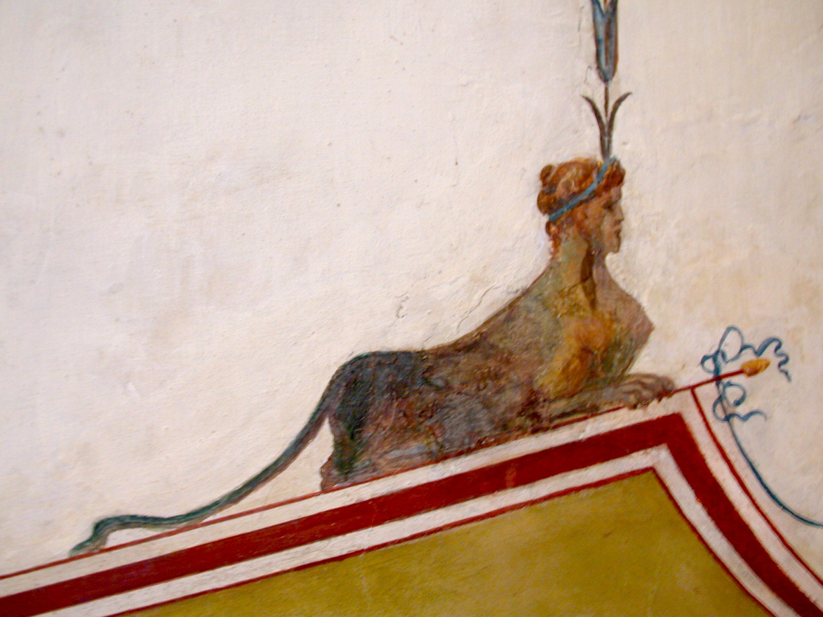 Wall ornament by Raffael Vatican Museums Native nameMusei VaticaniLocationVatican CityCoordinates41° 54′ 23″ N, 12° 27′ 16″ E Established1506Website